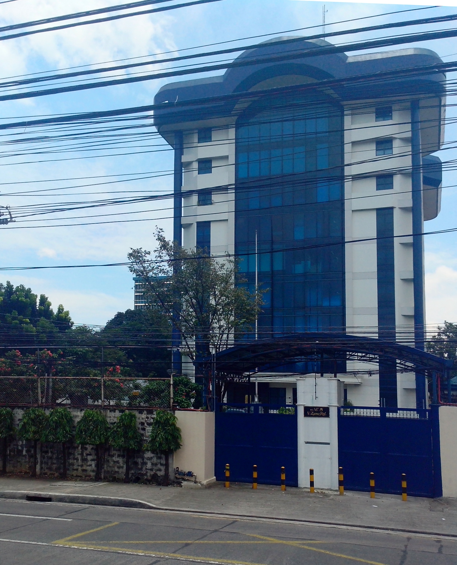 Headquarters of the National Intelligence Coordinating Agency along V. Luna Avenue in Quezon City